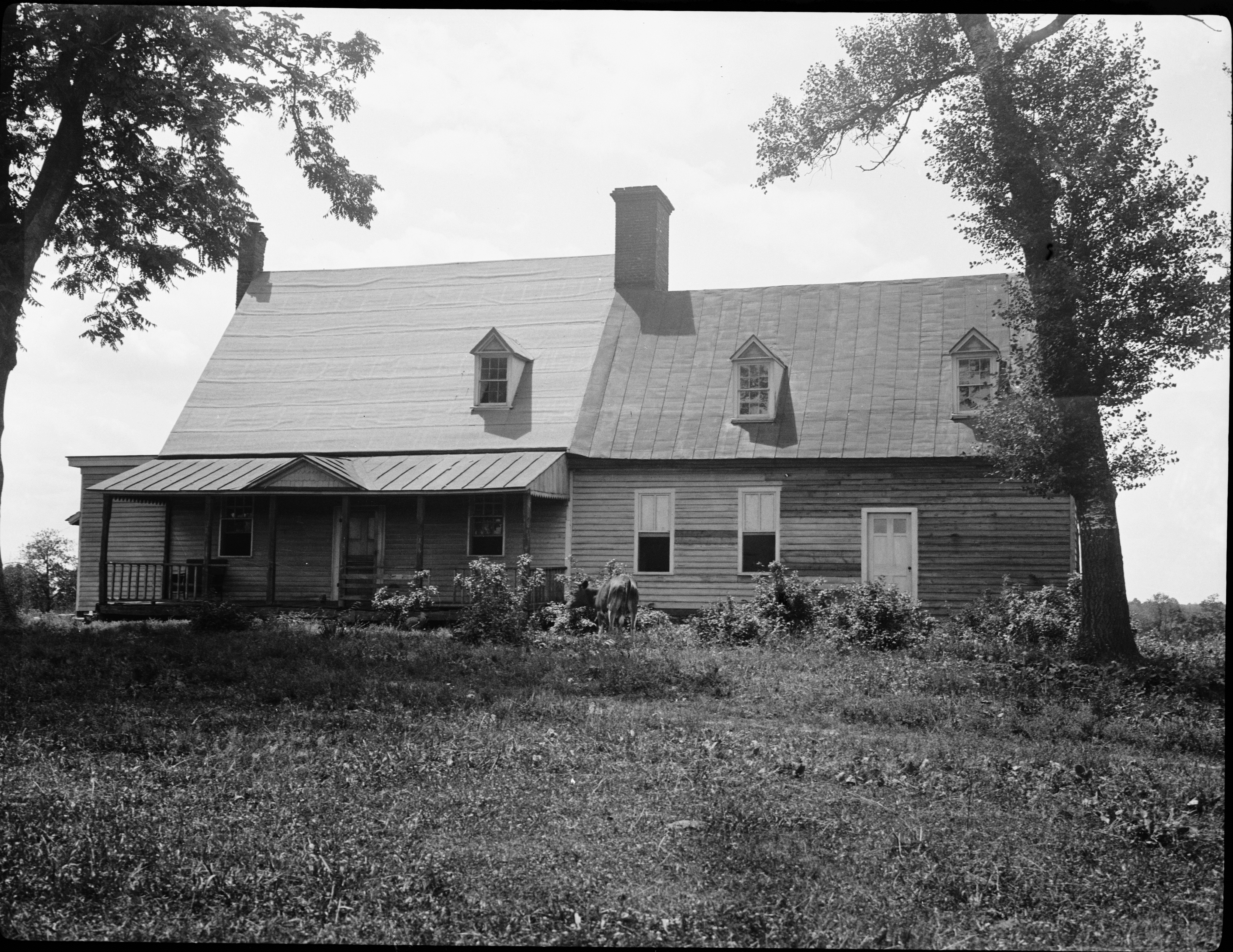 Title: Hope Park, 11807 Pope's Head Road, Fairfax vicinity, Fairfax, VA Creator(s): Historic American Buildings Survey, creator Medium: Measured Drawing(s): 6(18 x 24 in.) Photo(s): 9 (4 x 5 in. and 5 x 7 in.) Part of: Historic American Buildings Survey (Library of Congress) Reproduction Number: [See Call Number] Call Number: HABS VA,30-FAIRF.V,1- Repository: Library of Congress, Prints and Photographss Division, Washington, D.C. 20540 USA